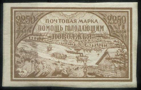 RSFSR stamp, 1921 Pomgol issue (Michel #166x, Scott #B16, 2250 roubles)